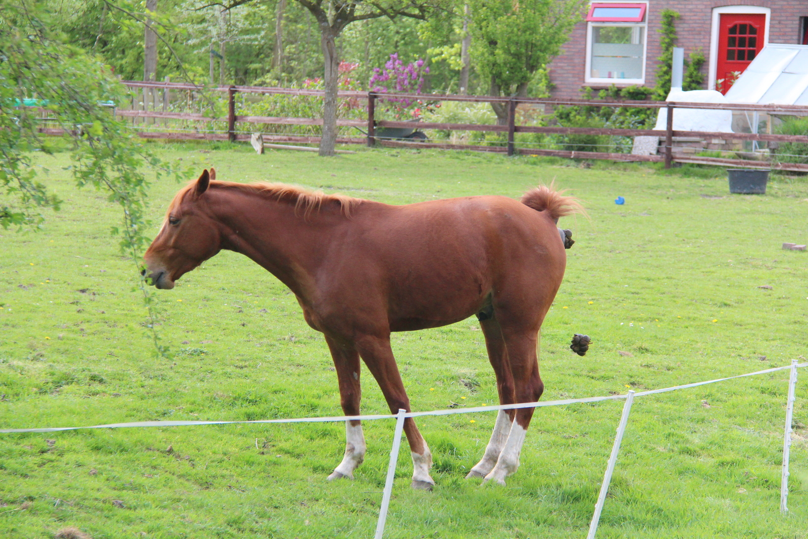 Defecated stallion